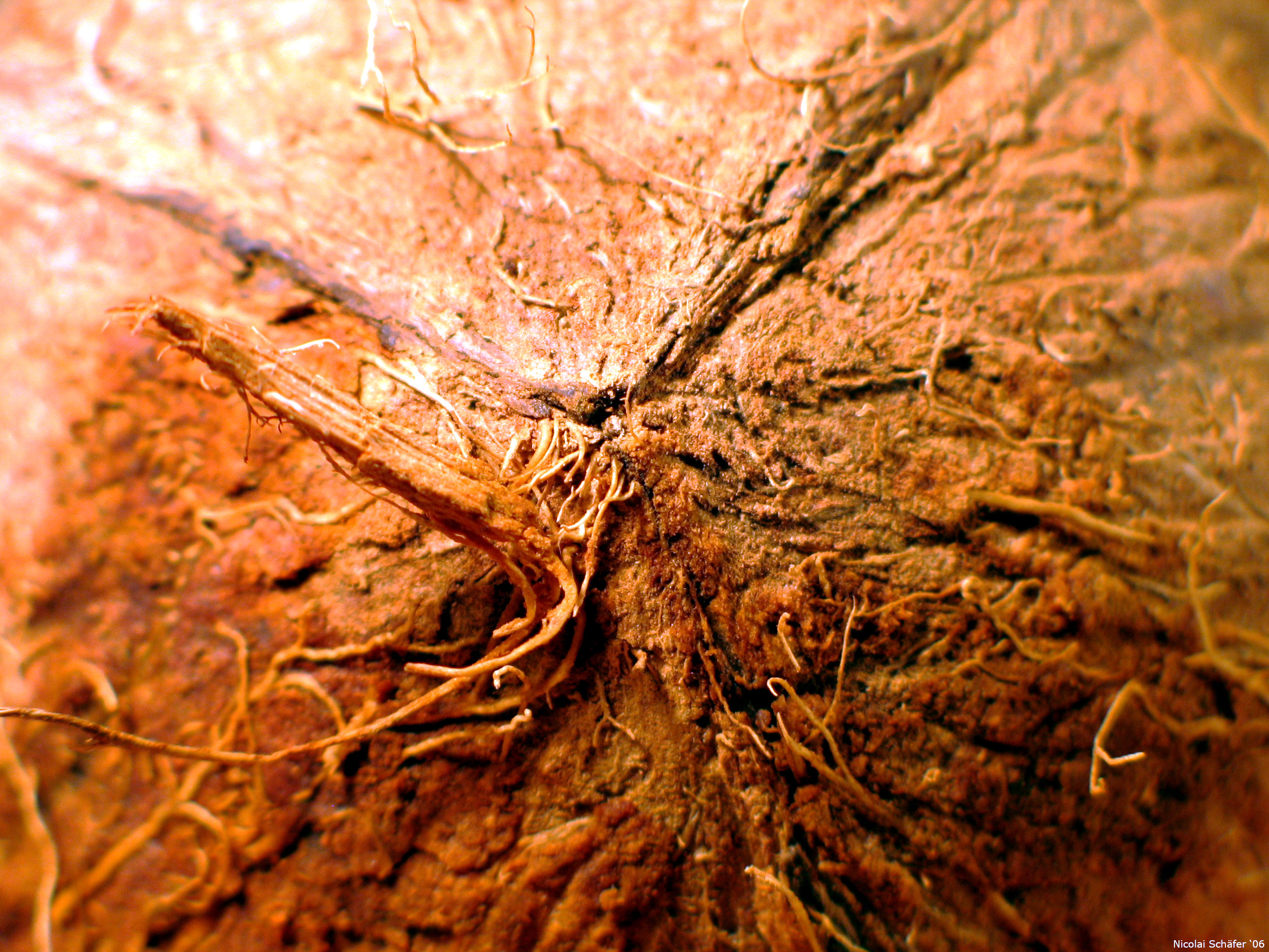 coconut, you can specially see the filaments fotographer: Nicolai Schäfer date: 20.10.2006